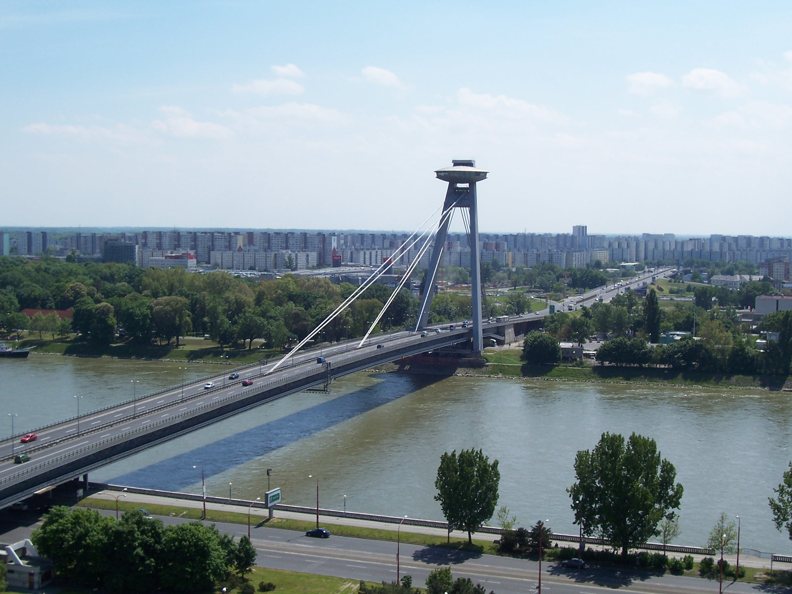 View of the Novy Most and the Petržalka district in Bratislava, taken from the Bratislava Hrad.